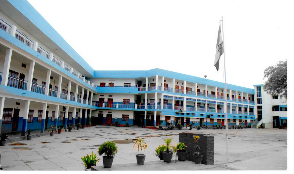 A view of school building from its Hall Of Fame